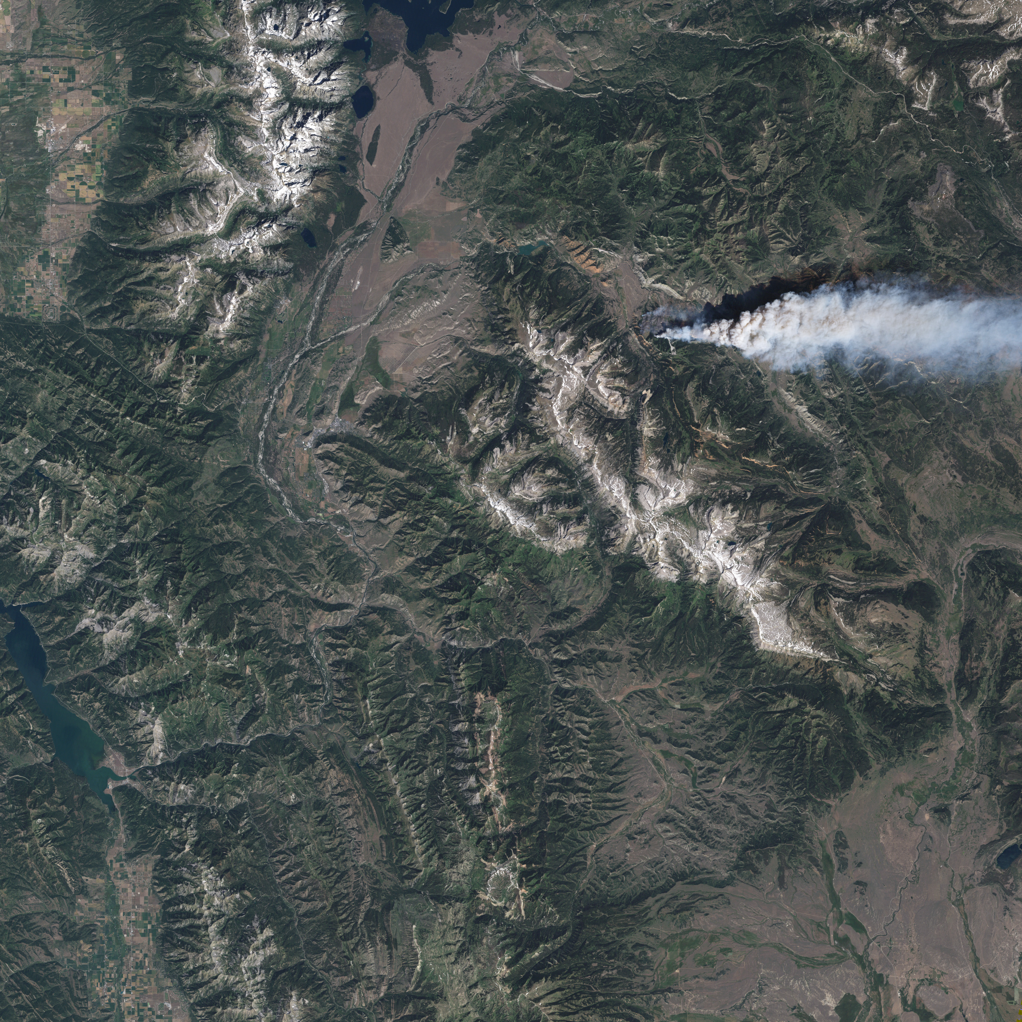 Satellite image of the Red Rock fire in the Gros Ventre Wilderness. Located east of Grand Teton National Park in Wyoming, Gros Ventre is part of the Yellowstone ecosystem. As the image shows, the wilderness contains a mix of landscapes ranging from meadows, which are pale green, to lodgepole or ponderosa pine forests, which are dark green. An array of exposed rocks—gray ridgelines of limestone, cliffs of red shale and pink sandstone, and brown till (rock debris) left by glaciers—surround the fire. The Gros Ventre range is extremely prone to landslides, and the pale strip of gray south of the smoke plume appears to be a landslide.Image captured by the Landsat-5 satellite. Landsat 5 data from the USGS Global Visualization Viewer.